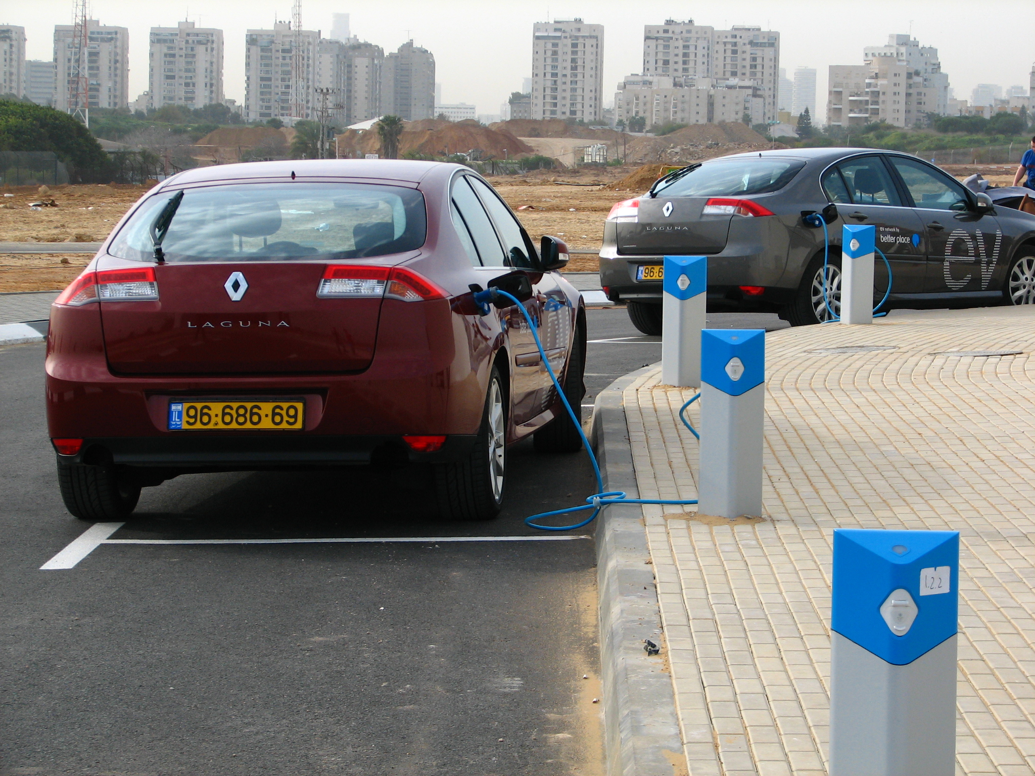 EVs charging at the Better Place visitor centre at the Pi-Glilot former gas depot in Ramat Hasharon, Israel, north of Tel Aviv